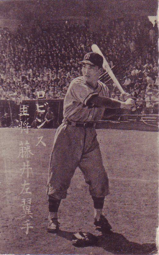 Bromide from Isamu Fujii (Japanese Baseball Player).